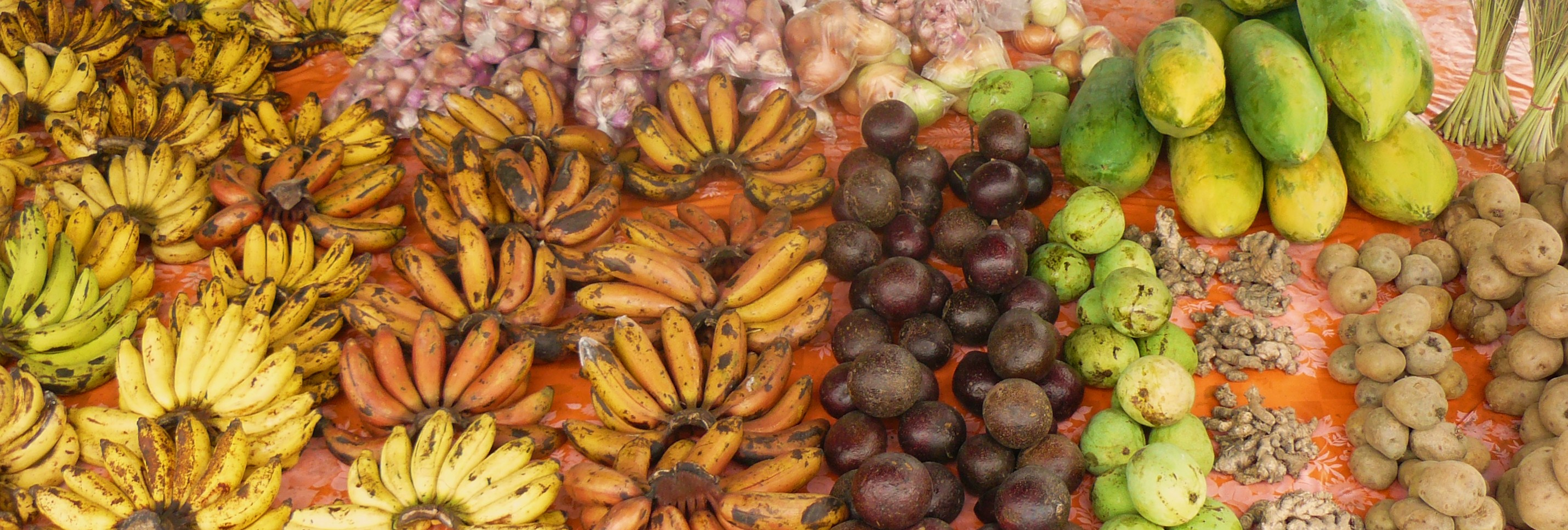 Lecidere market, Dili